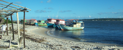 Pitimbue Beach